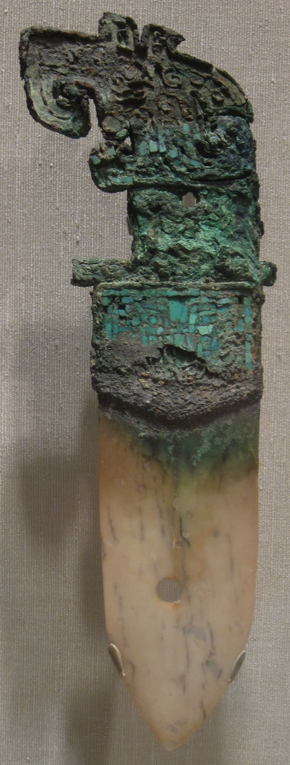 Dagger axe from China, Shang dynasty, bronze, nephrite, and turquoise, Honolulu Academy of Arts